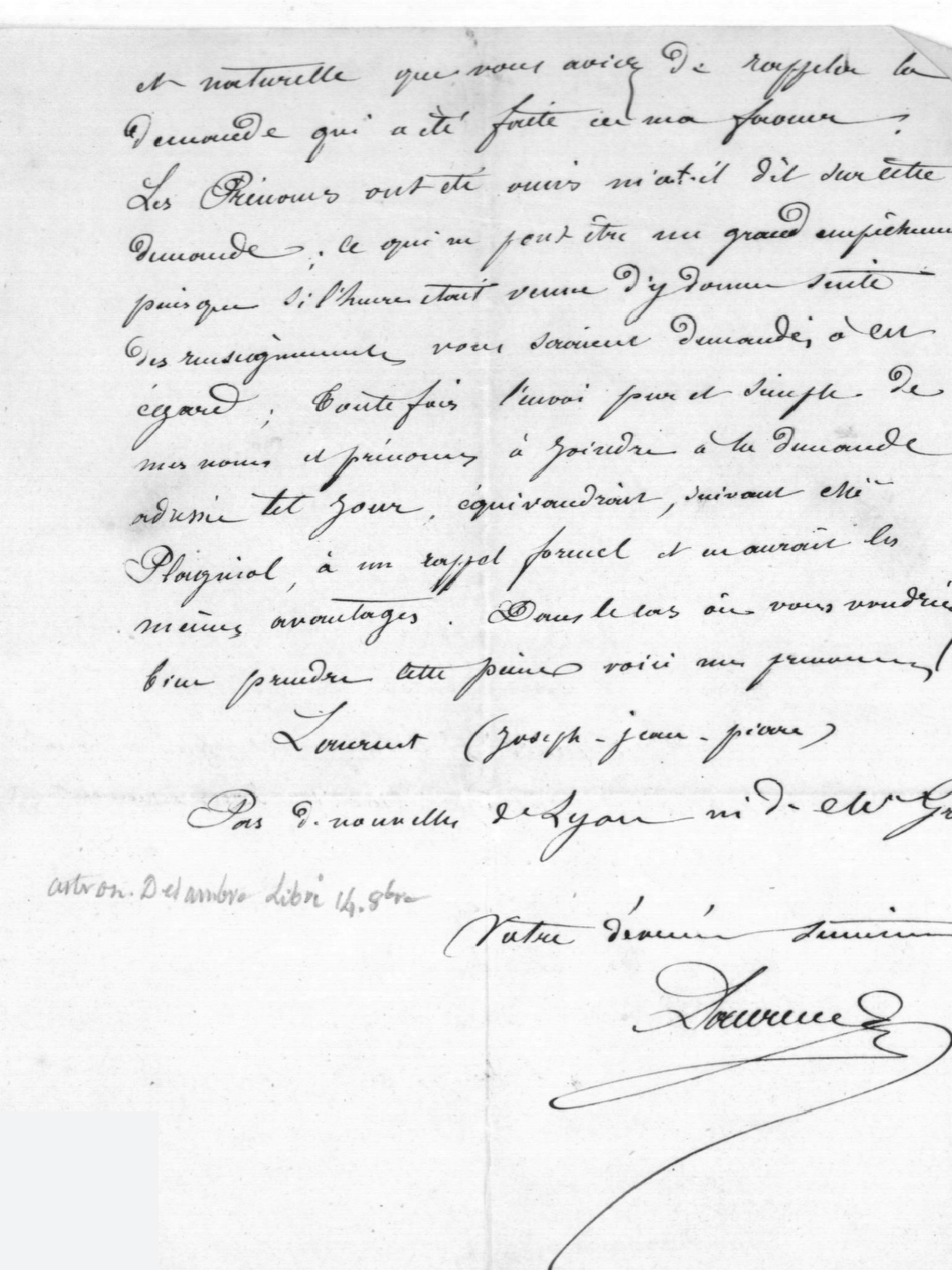 Third and final page of a letter dated September 5, 1858 from Monsieur Laurent to Benjamin Valz (director of the Marseille observatory) The letter mentions that his first name is Joseph-Jean-Pierre. Transcript (including end of previous page): J'ai rencontré M. Plagniol qui était venu passé quelques heures à Nîmes pour quelques affaires. Il m'a demandé de vos nouvelles et je lui les ai donné, et il m'a engagé à vous prier de profiter d'une occasion favorable et naturelle que vous aviez de rappeler la demande qui a été faite en ma faveur. Les Prénoms ont été omis m'a-t-il dit sur cette demande ; ce qui ne peut être un grand empêchement puisque si l'heure était venue d'y donner suite des renseignements vous seraient demandés à cet égard ; toutefois l'envoi pur et simple de mes noms et prénoms à joindre à la demande adressée tel jour équivaudrait, suivant M. Plagniol, à un rappel formel et en aurait les mêmes avantages. Dans le cas où vous voudriez bien prendre cette peine voici mes prénoms Laurent (Joseph-Jean-Pierre) Pas de nouvelles de Lyon ni de C[?] Gras Votre dévoué serviteur Laurent [signature]